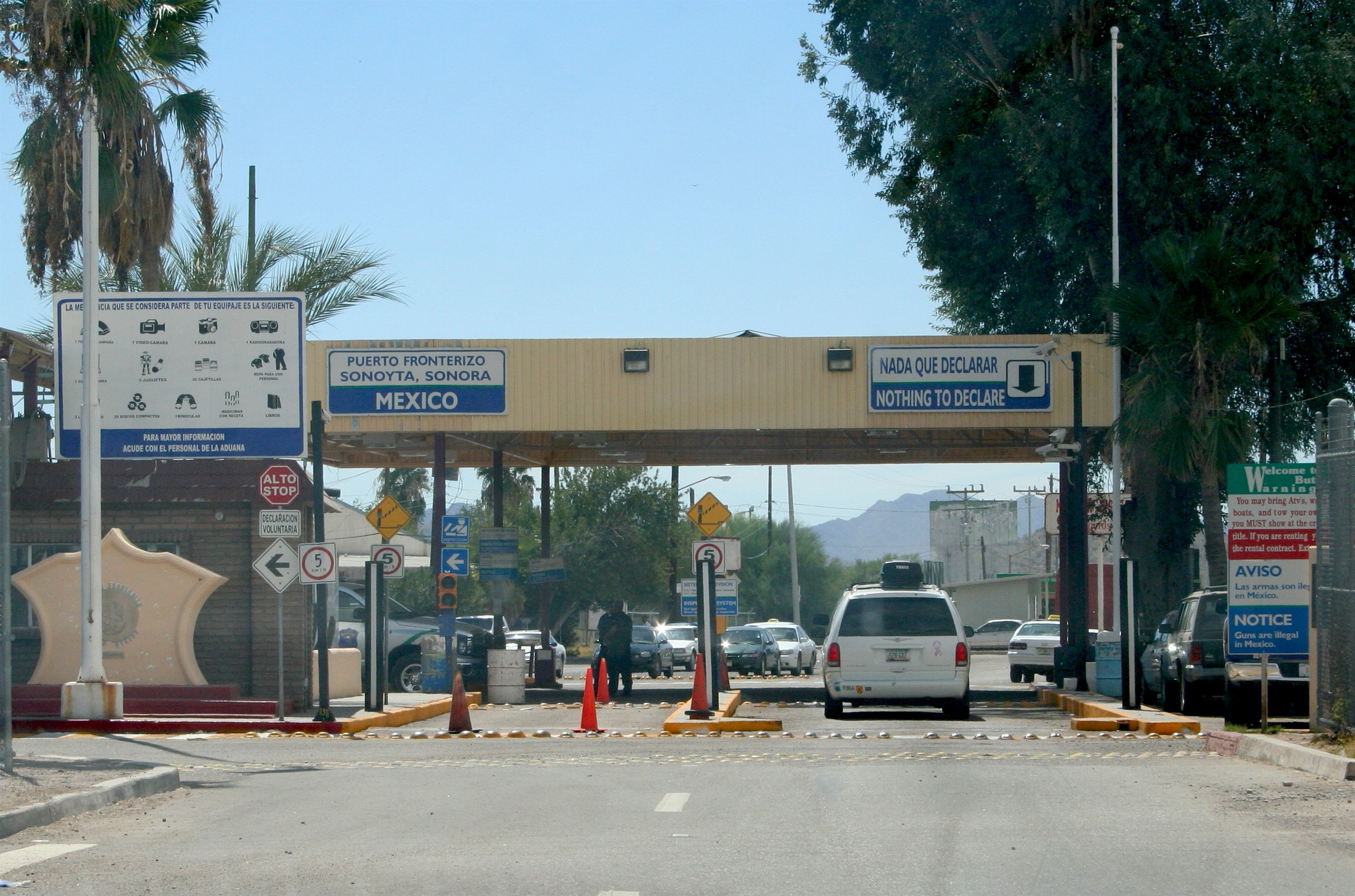 Entering Mexico from Lukeville (US) to Sonoyta (Mexico). Nothing special, just drive on through.